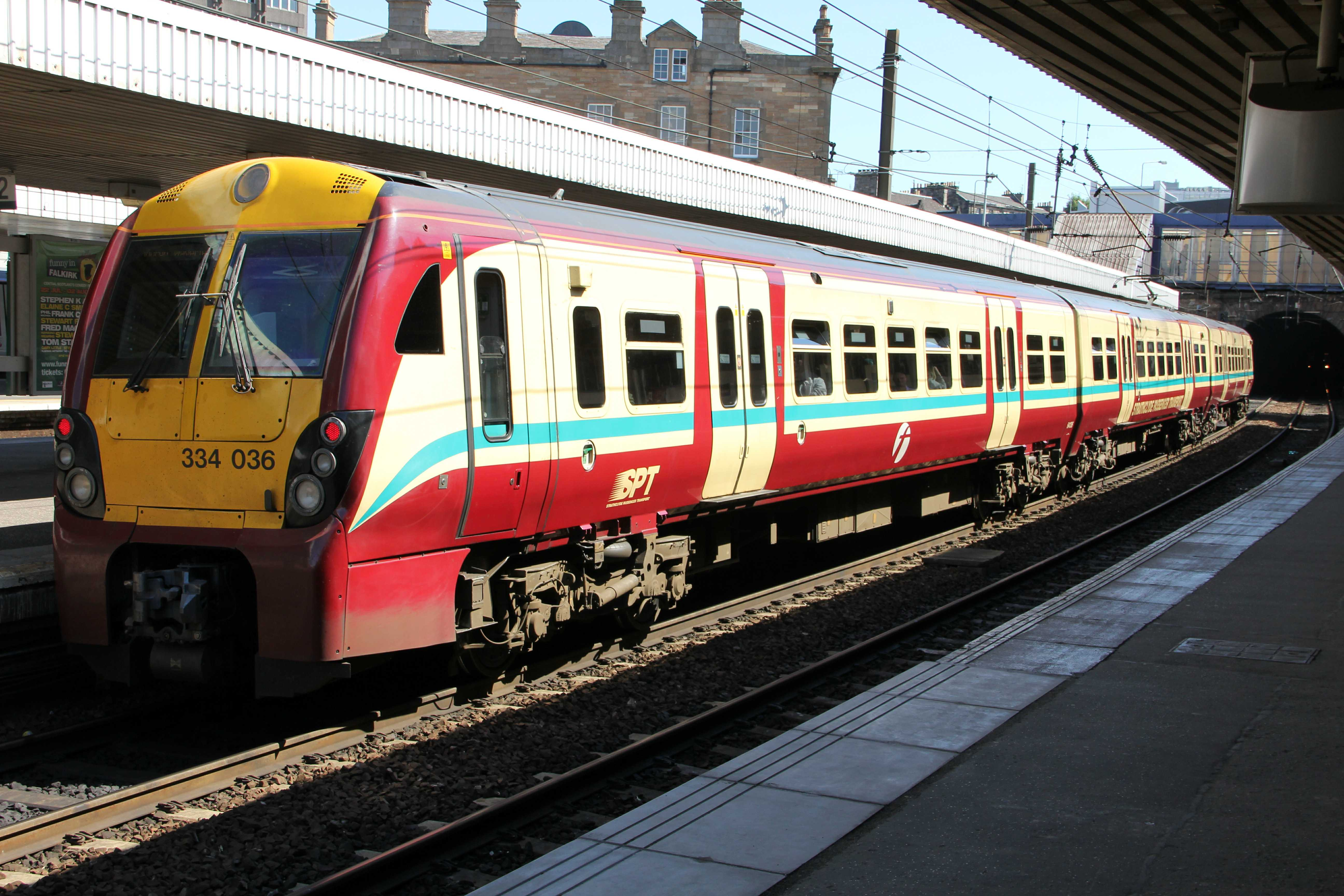 British Rail Class 334 unit 334036 at Haymarket railway station platform 3 working the 09:10 Helensburgh to Edinburgh Waverley